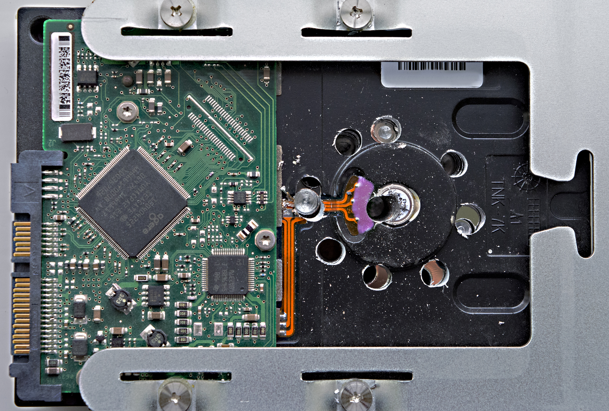 A Hard drive is an example of a physical IT Infrastructure component.